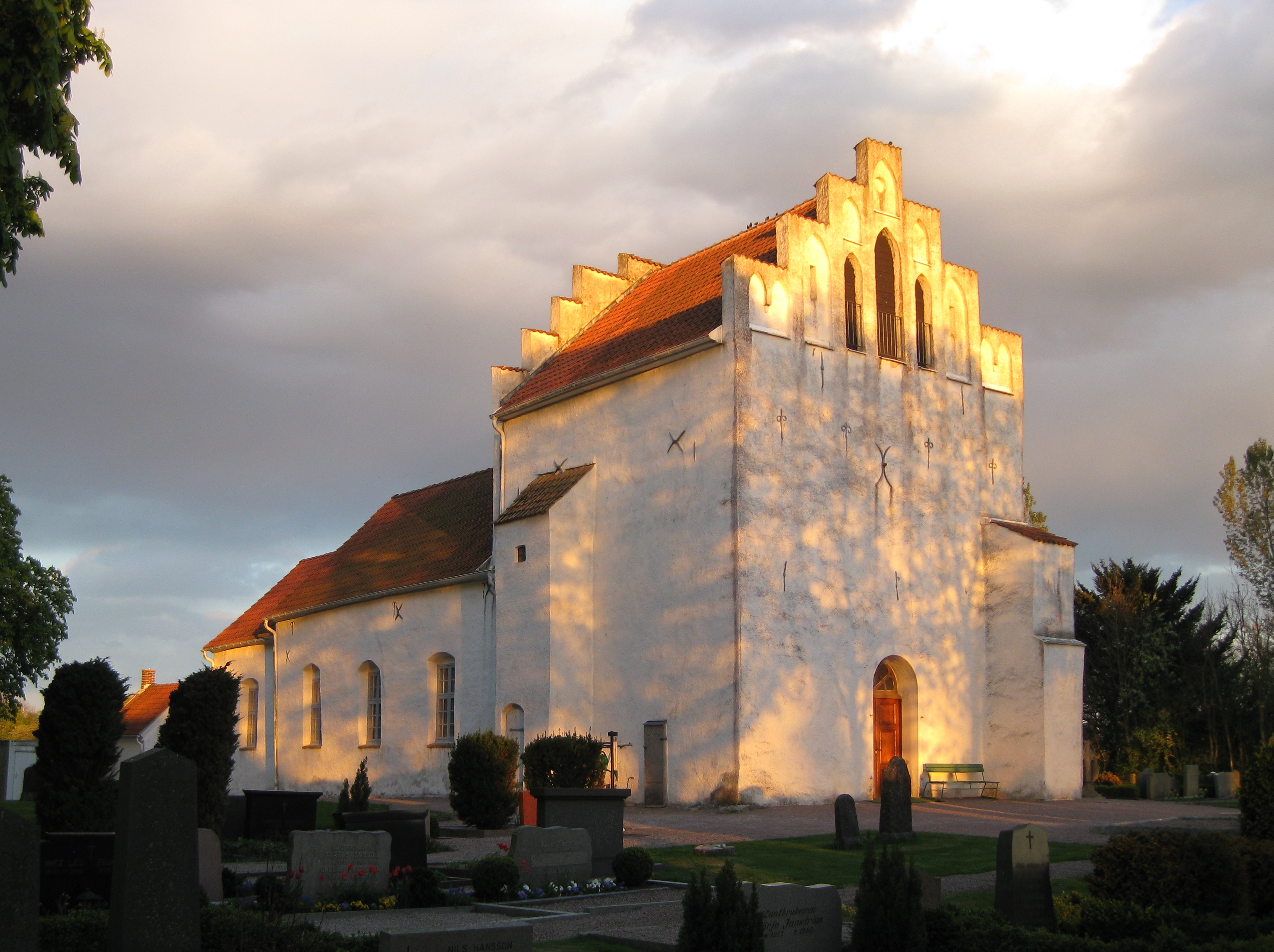 Hässlunda church in Skåne, Sweden